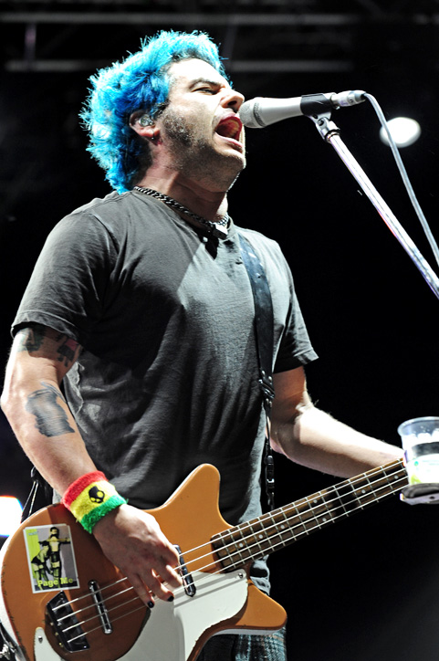 No Sleep Til Festival 2010